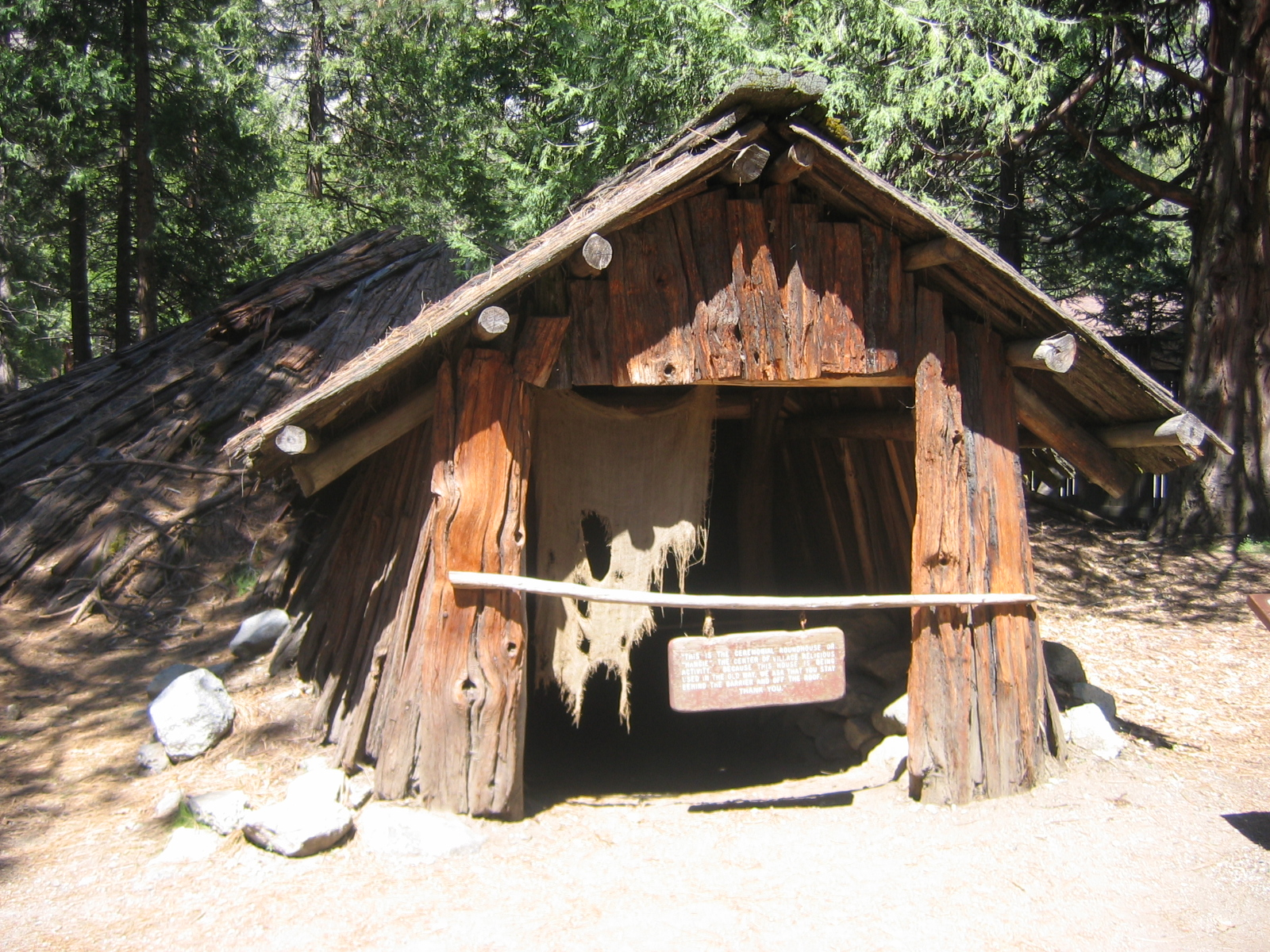 Description : Miwok Round House, Yosemite National Park, California, USA. Author : Urban ; I took this picture on April 2006.